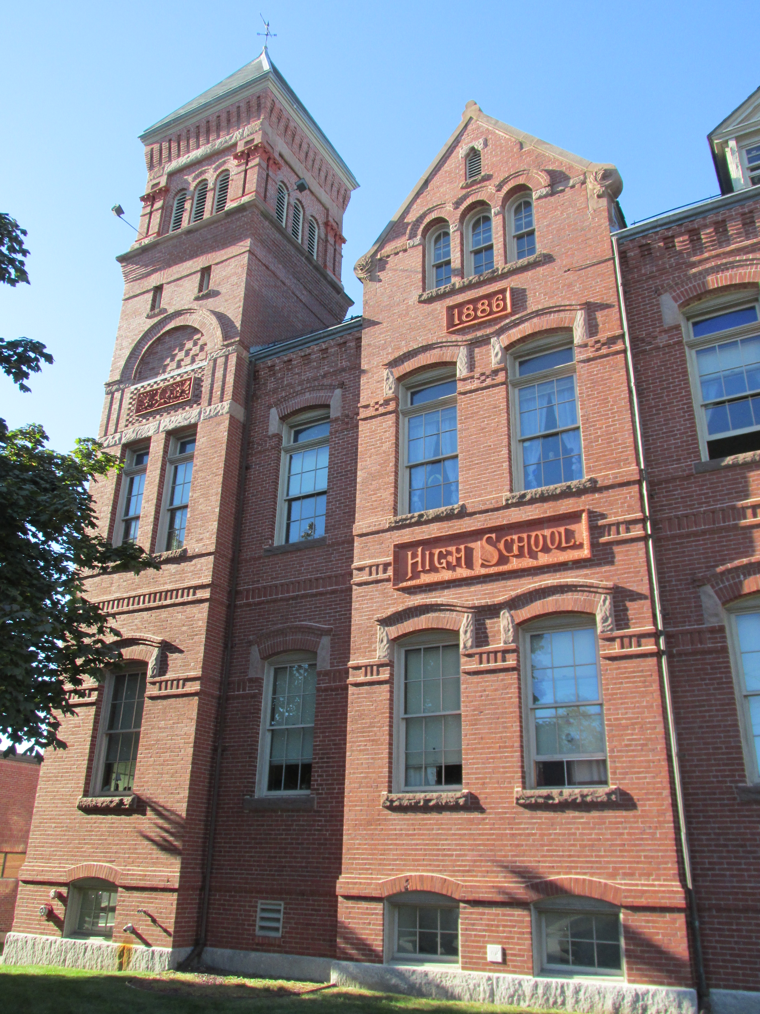 Westbrook High School, Westbrook Maine